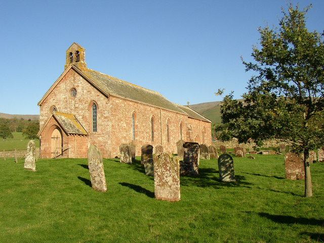 St Lawrence the Martyr's Church, Kirkland, Culgaith CP An old church said to have once been much larger. It was the parish church for several townships. There is some medieval masonry, such as the chancel arch that could be 14C, but the church was rebuilt in 1880. It has a double bellcote with bells rung from the porch. Inside, the church is lit by a softly-coloured E window of 1899. There is a 13C effigy of a Knight in the sanctuary. In the churchyard there is a cross over 2.5m high, the head free-armed, but round holes between the arms.